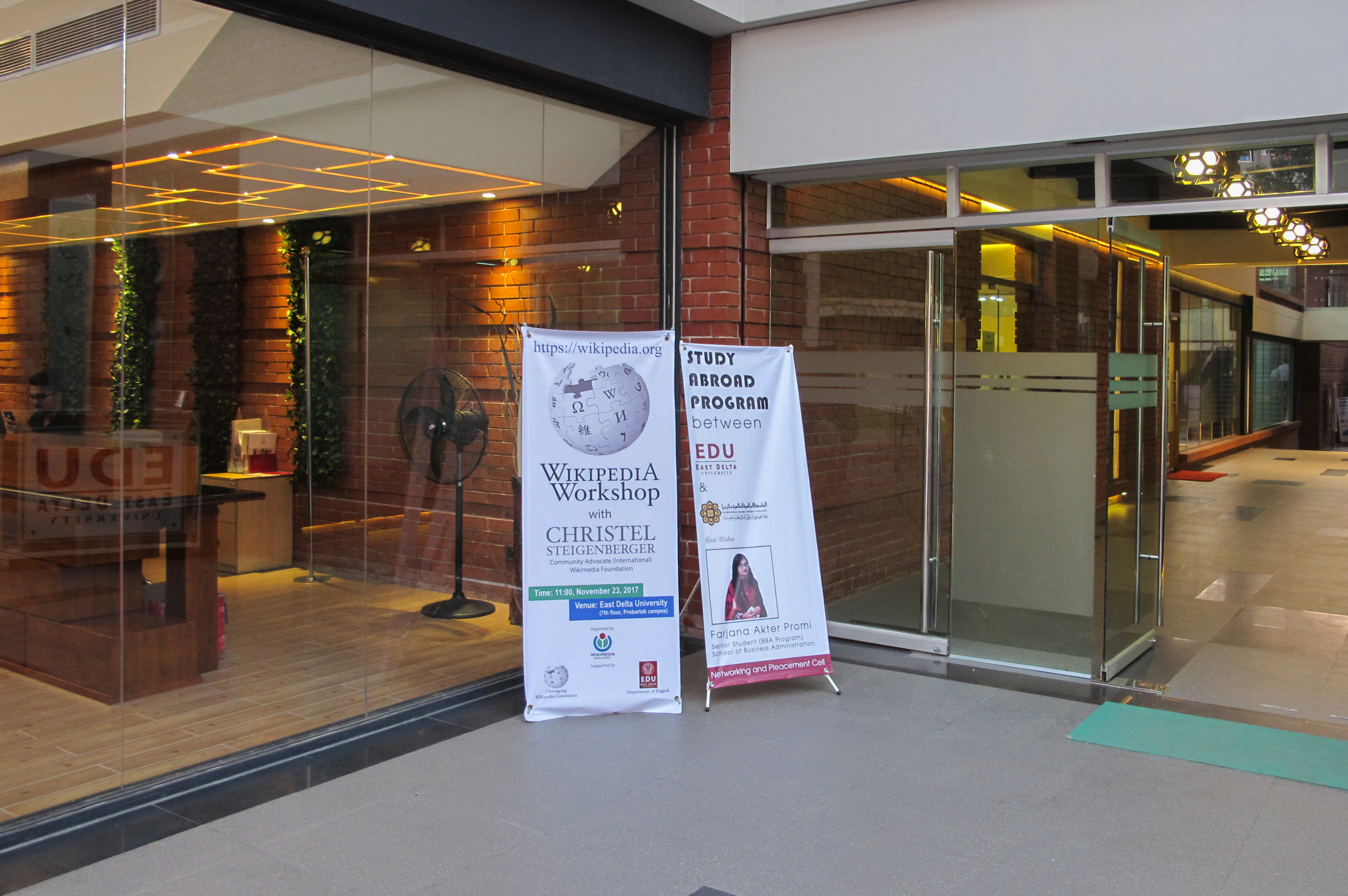 Wikipedia Workshop with Christel Steigenberger, EDU, X banner